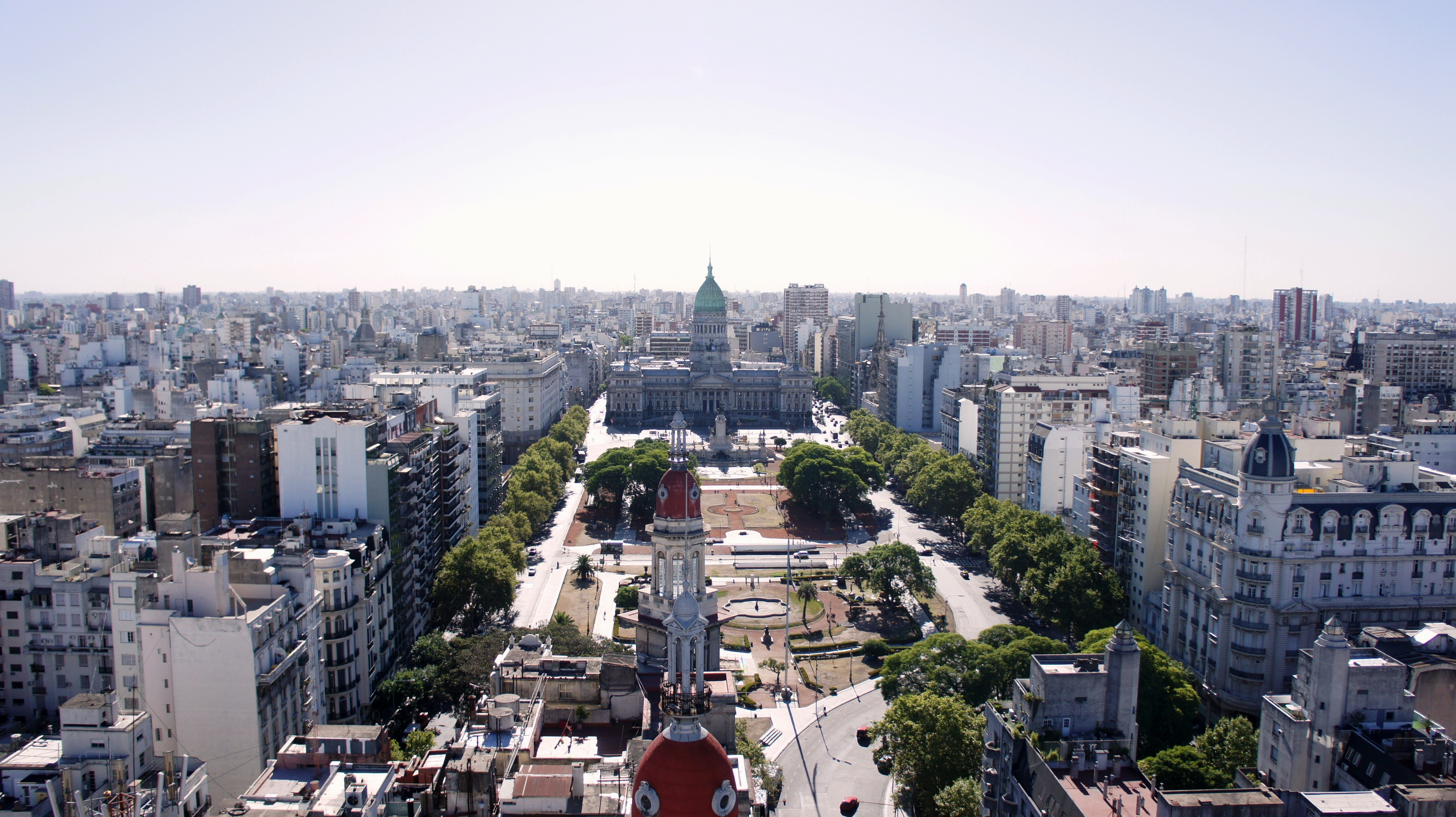 Congressional Plaza, Buenos Aires, Argentina.